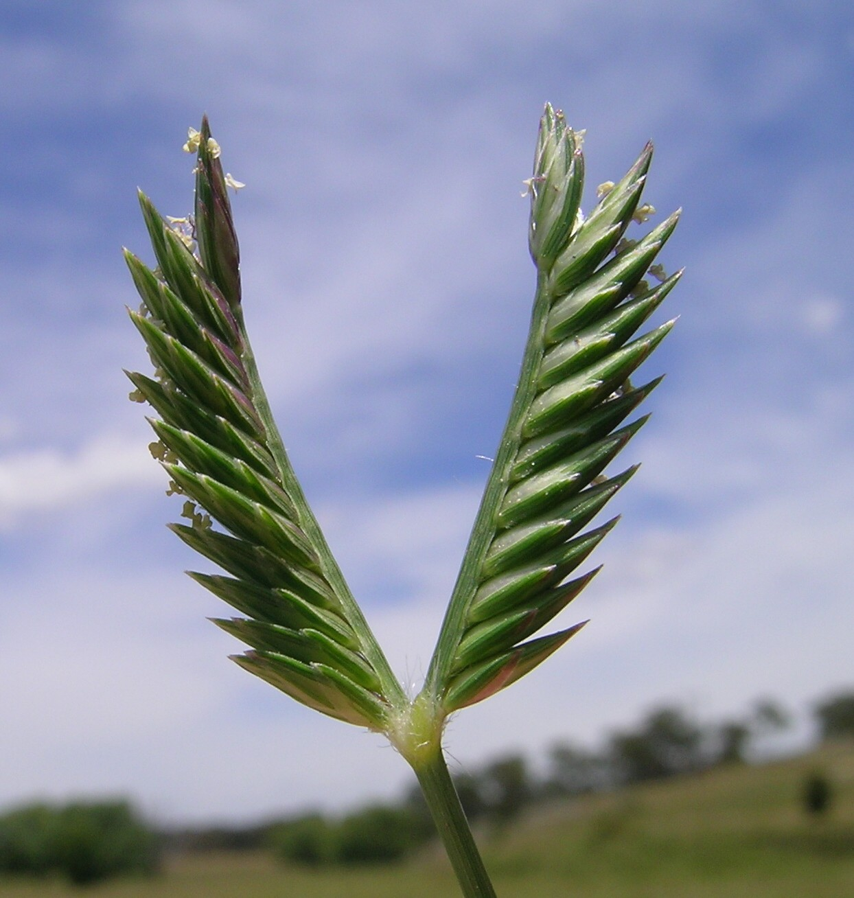 Flowerheads are digitate with 2-3 thick branches (spikes) that are 1-3 cm long. Spikelets are 3-6-flowered, 3-7 mm long and densely packed in 2 rows on the underside of the branches.